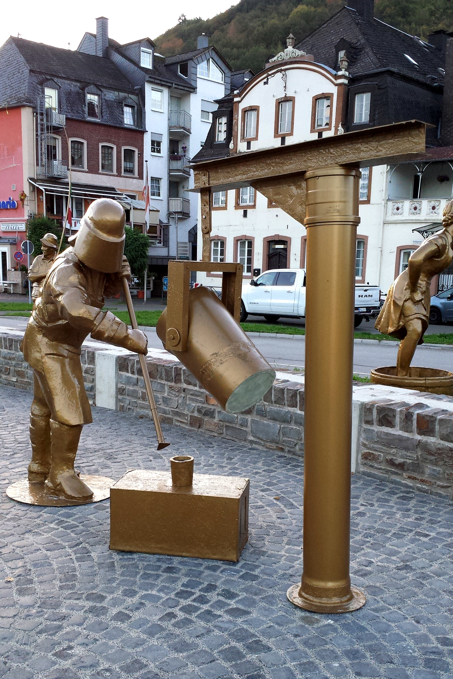 Sculpture Ferdinand Remy by the artist Turgut Gül